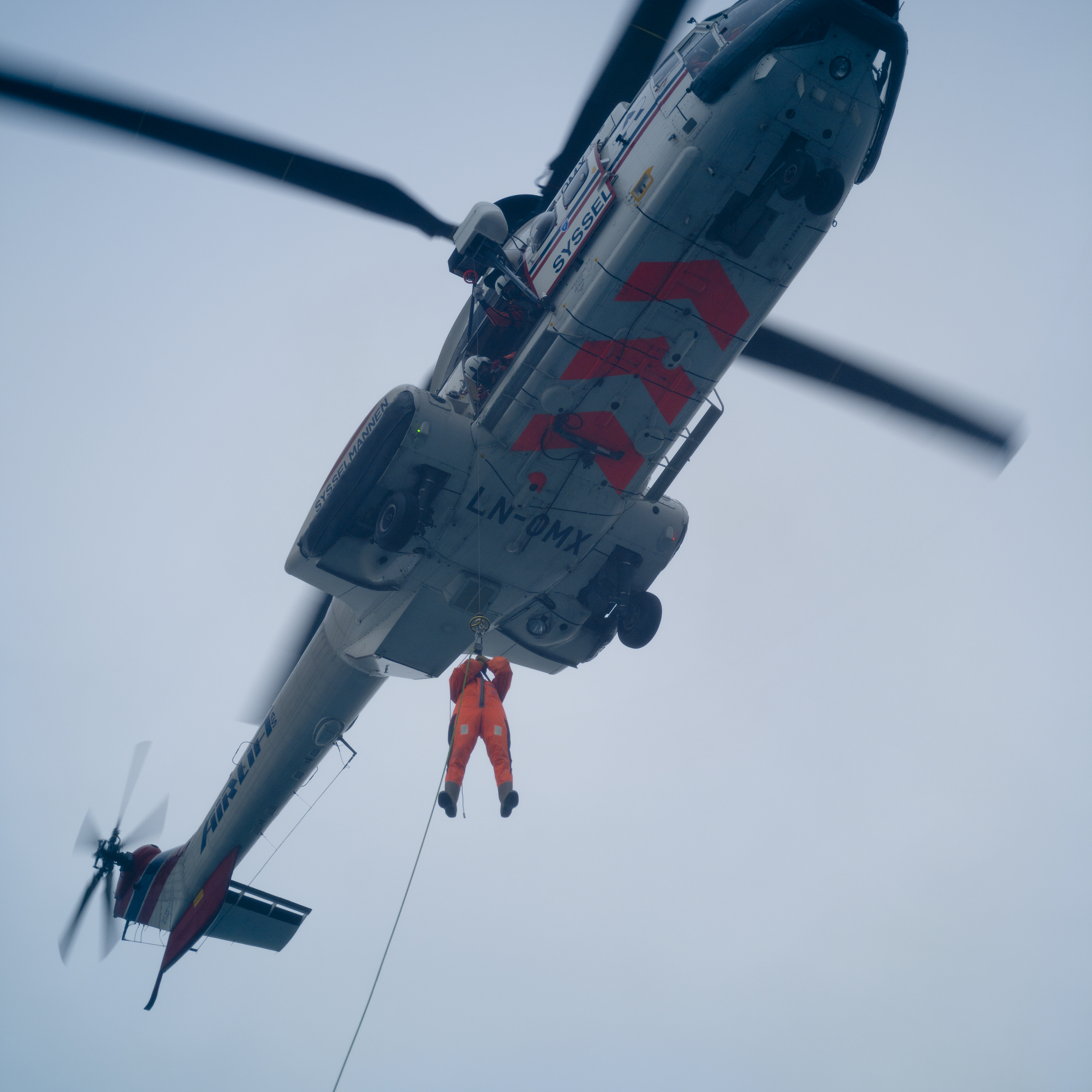 A Svalbard ferry en route from Longyearbyen to Barentsburg was contacted by the Norwegian Coast Guard to request its participation in a search and rescue training exercise on behalf of the office of the Governor of Svalbard (Sysselmannen). The Eurocopter AS332 Super Puma hovered at roughly 100 to 150 ft (30 to 45m) creating significant spray while lowering and hoisting two of its crew.